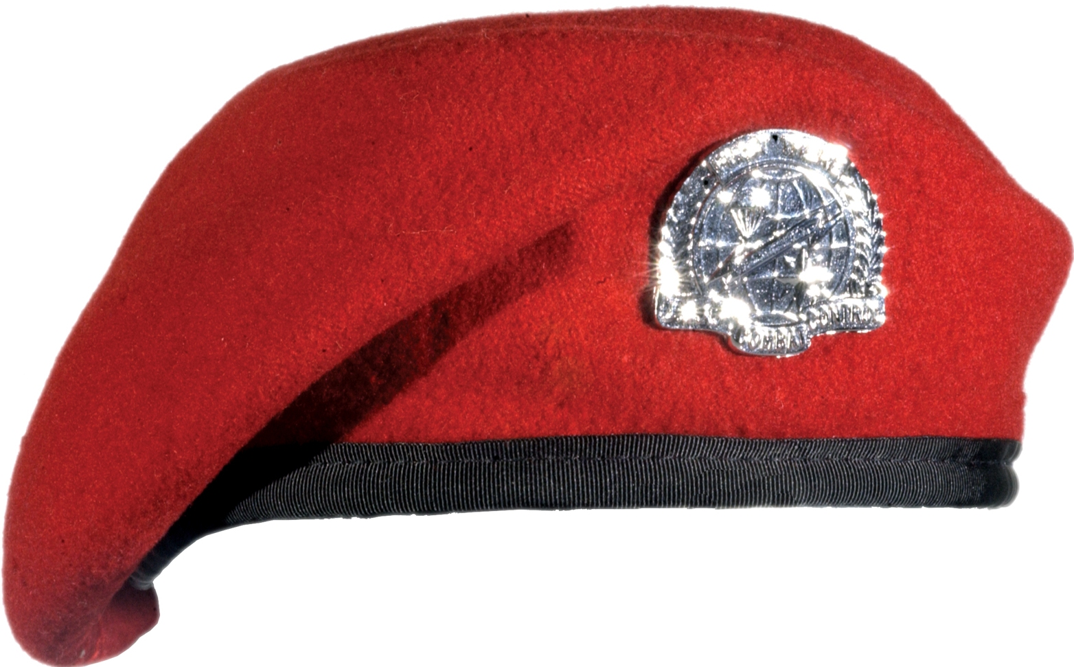 Photo of U.S. Air Force Combat Control Team Beret and Flash